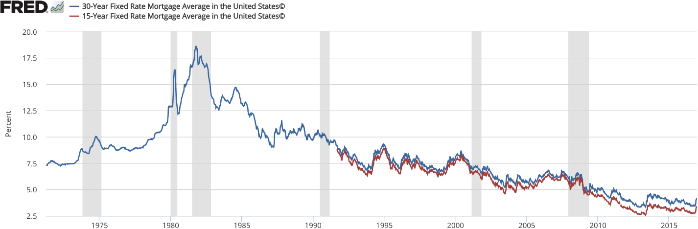 US_mortgage_rates_history